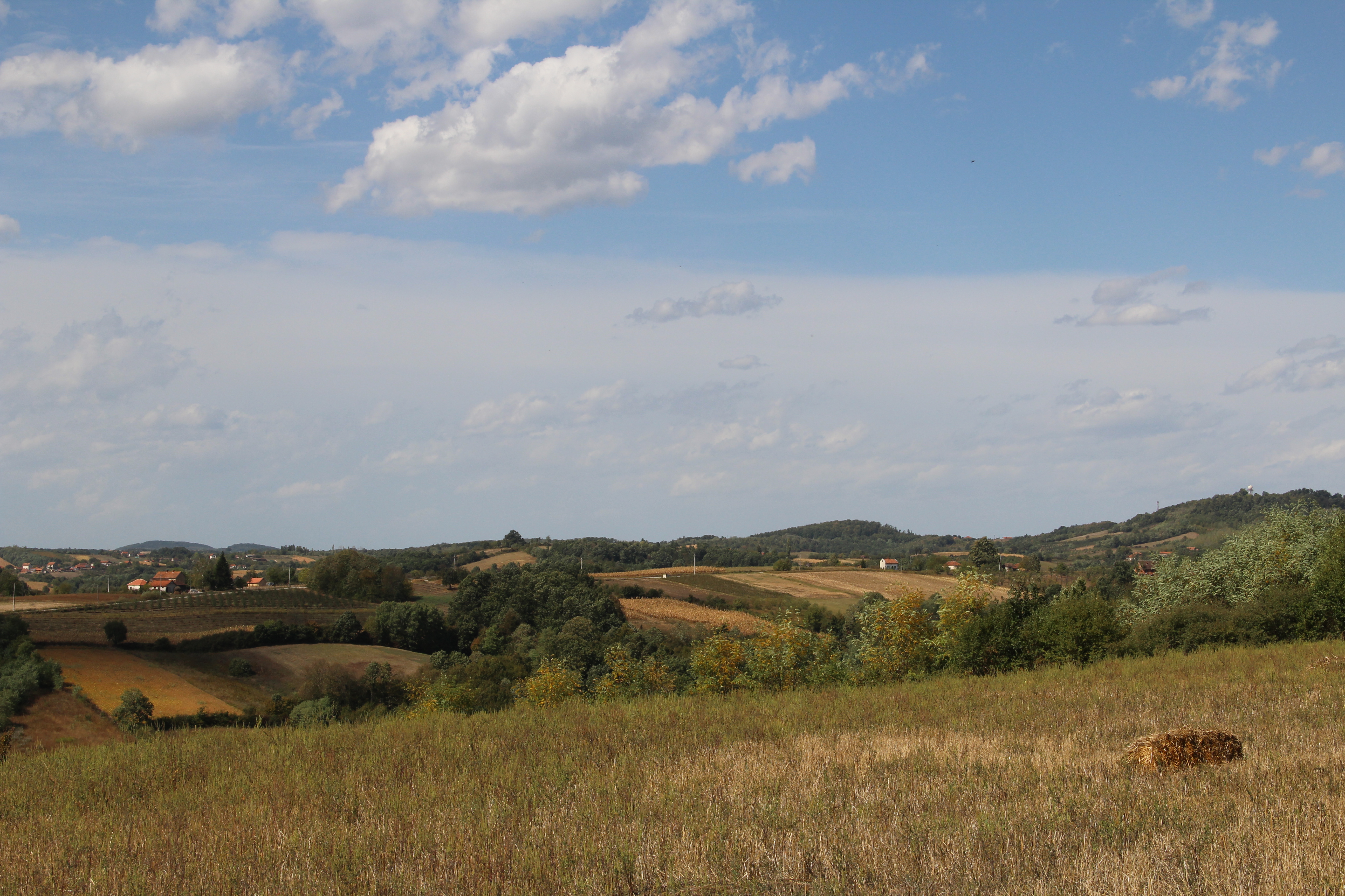 Blizonje village - Municipality of Valjevo - Western Serbia - Panorama 2